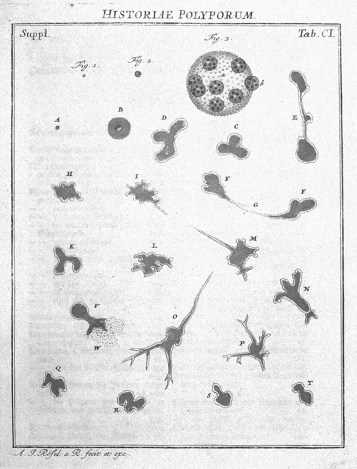 Engravings of figures of the proteus or amoeba. This is the first printed illustration of teh creatures later called amoeba. Rare Books Keywords: Amoeba; Roesel von Rosenhof, A.J.